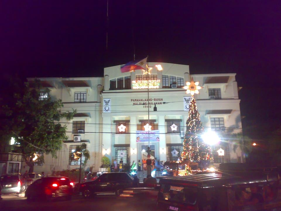 the present malolos cityhall